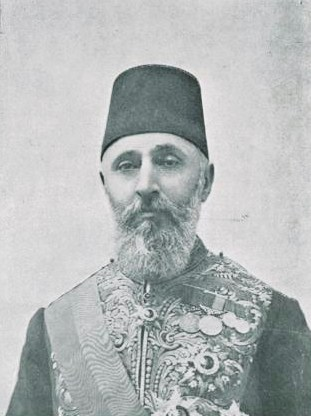 Ottoman Grand Vizier Ahmed Tevfik Pasha